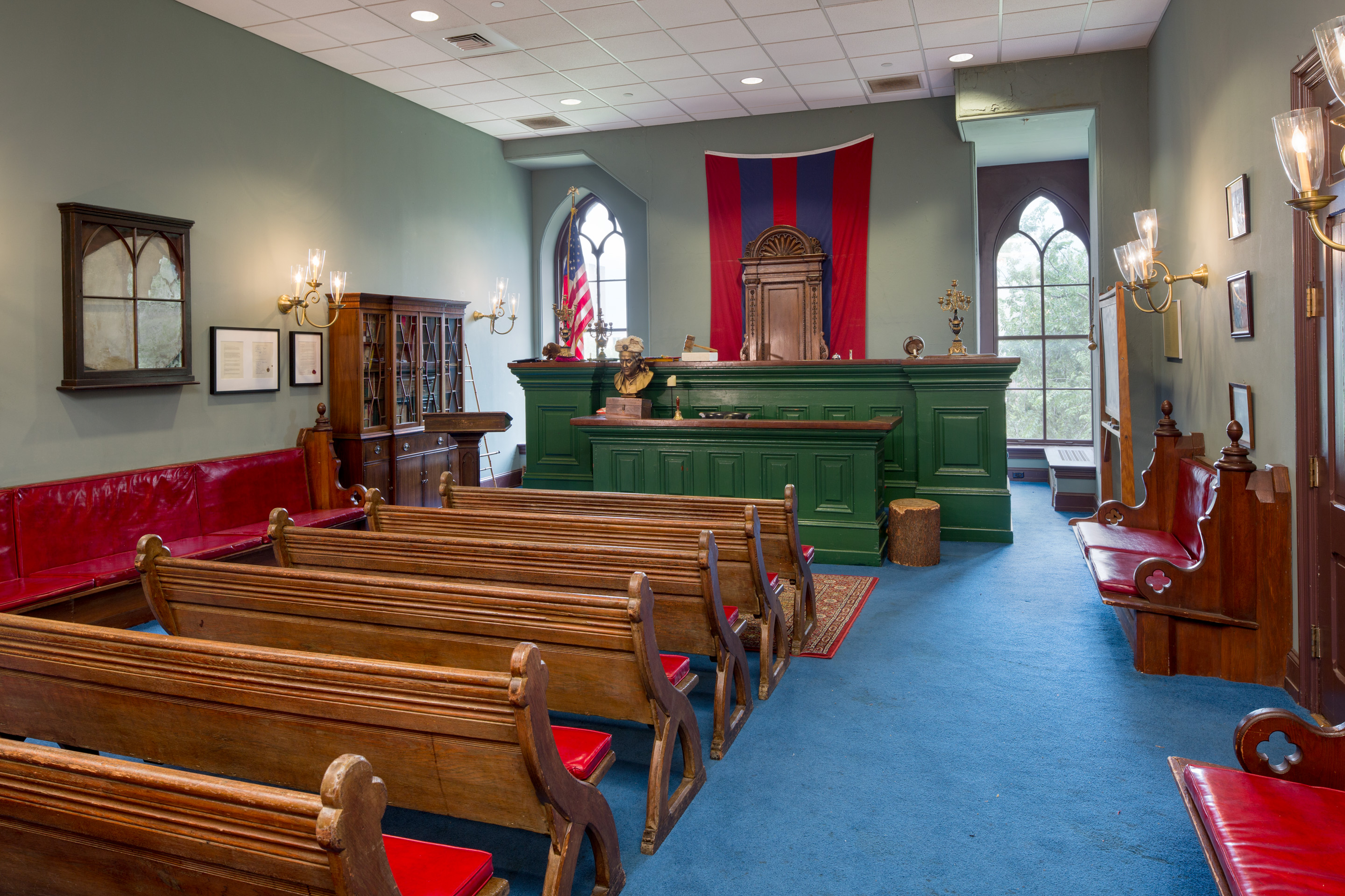 The Philomathean meeting room, where general meetings, lectures, debates and other events are held on a weekly basis